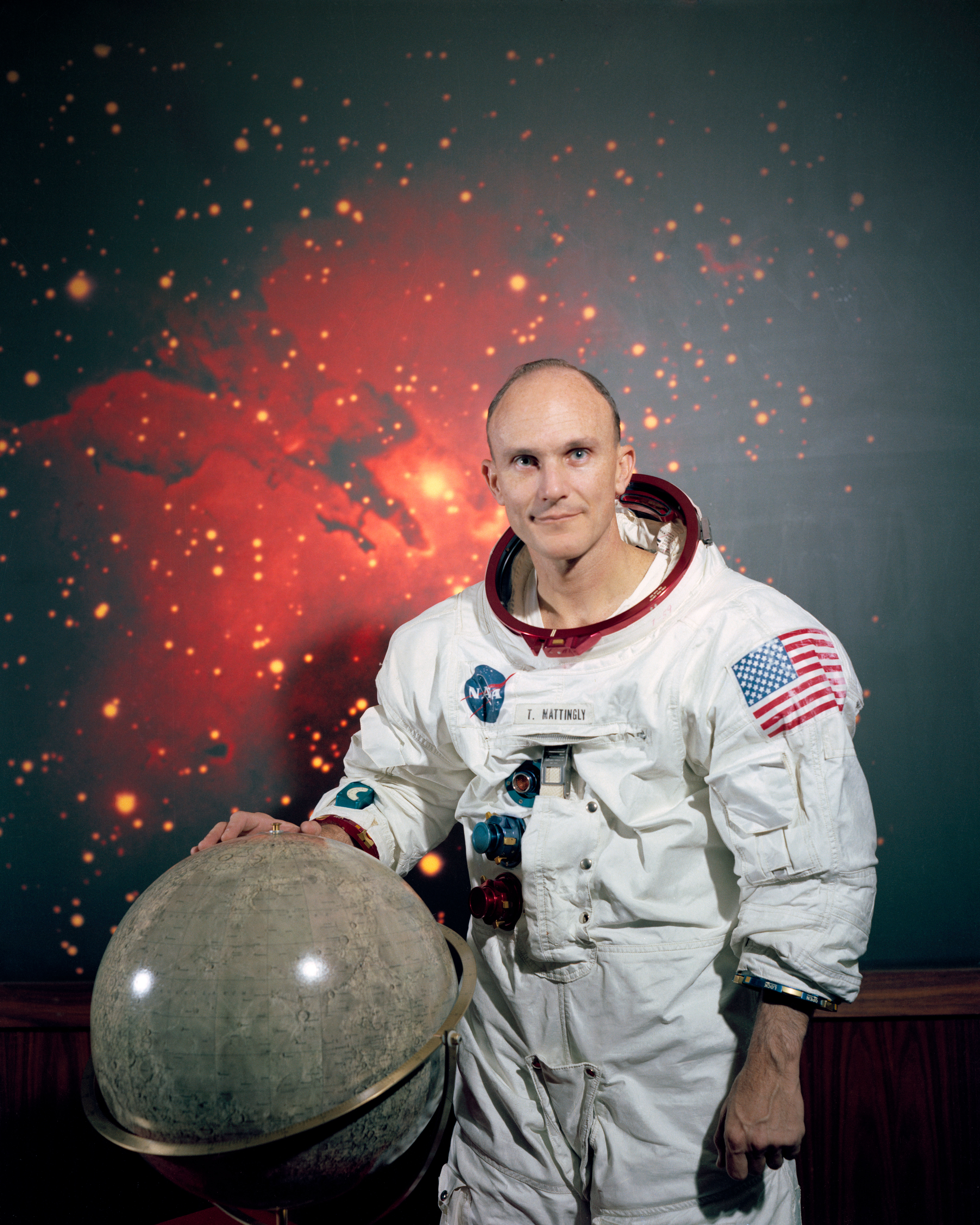 Astronaut Thomas K. Mattingly II.